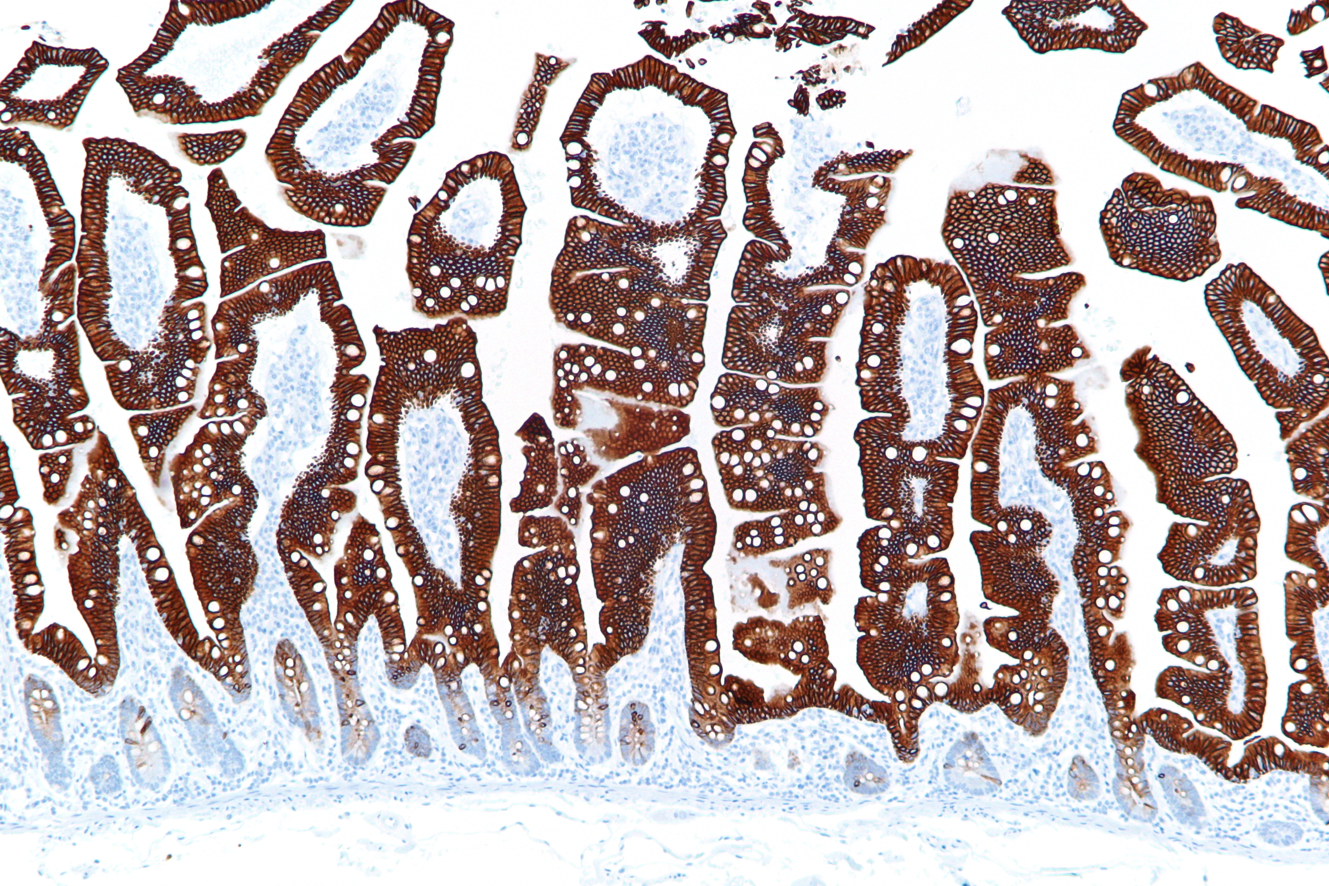 Intermediate magnification micrograph showing normal small intestinal mucosa. CK20 immunostaining.